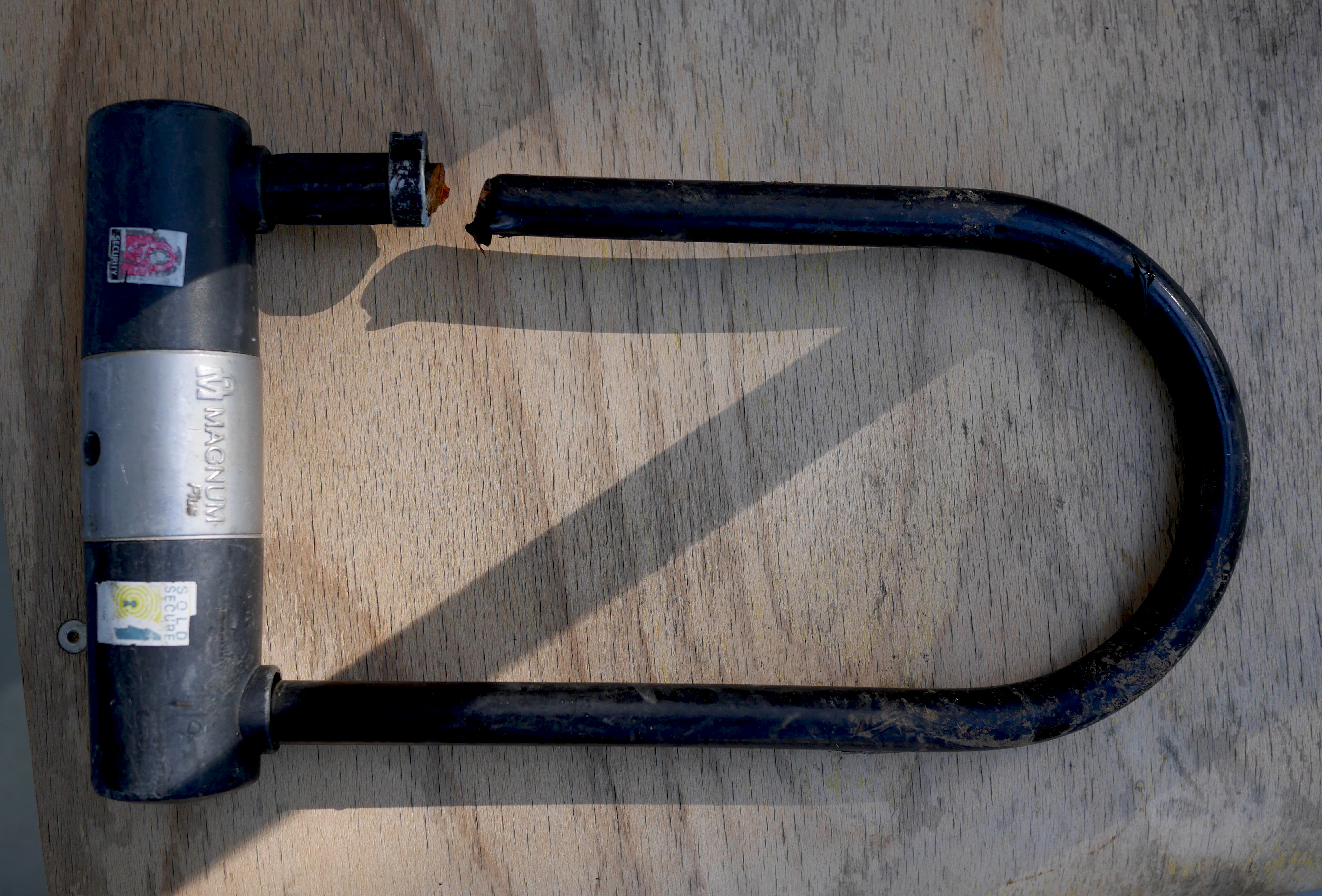 U lock severed with bolt cutter on the spot of bicycle theft. Študentsko naselje, Ljubljana, Slovenia